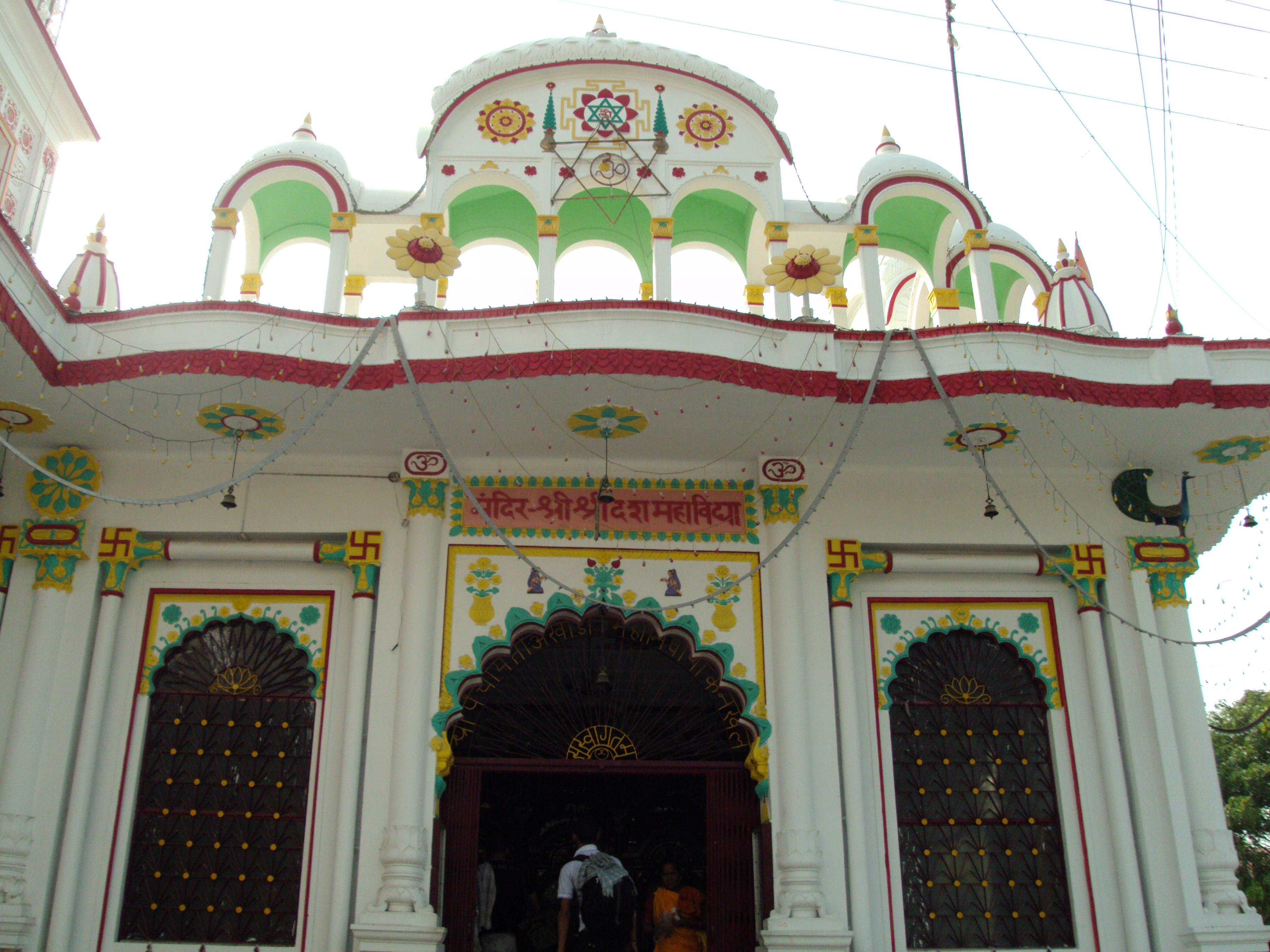 Das Mahavidya temple within Daksheswara Mahadev temple, Kankhal, Haridwar district, Uttarakhand, India